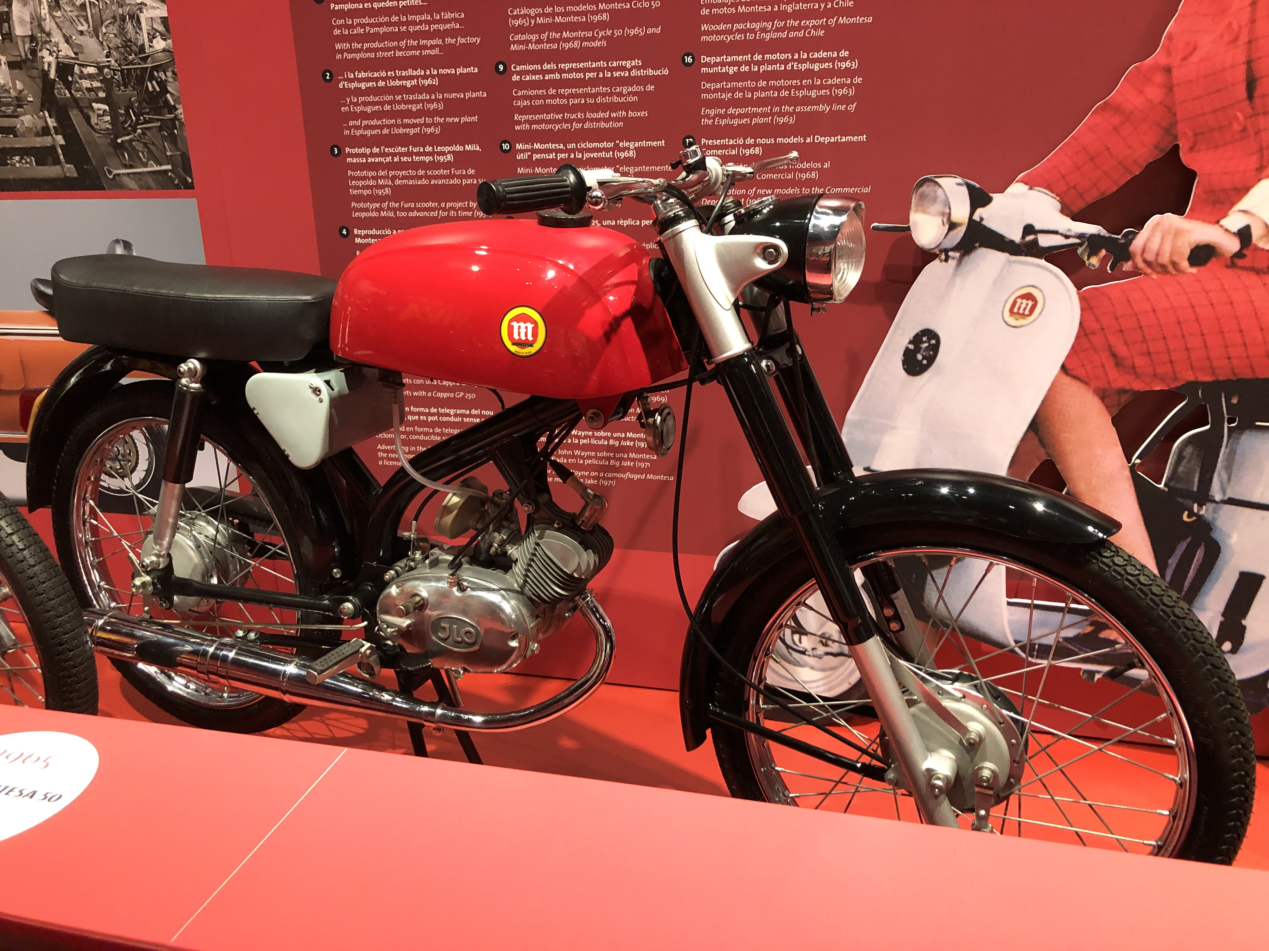 Ciclo Montesa 50 (1965), Mod. 17M, 48.7 cc